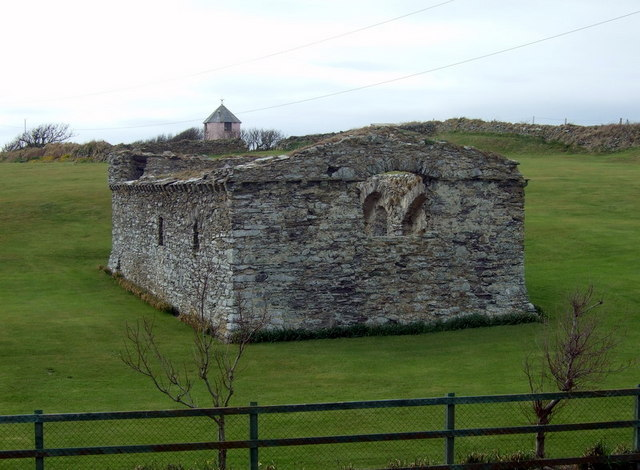 St Justinian's chapel This roofless mediaeval chapel can be seen to the right on the way down to the lifeboat station and the boat for Ramsey Island (also the departure point for Ireland in the Middle Ages.) Founded by St Justinian, or Stinan/Stinian, a 6th century christian saint who was born in Britanny and went into seclusion on Ramsey. It is said that St David revered him and used him as a confessor. His remains were buried here but were removed to St David's cathedral.